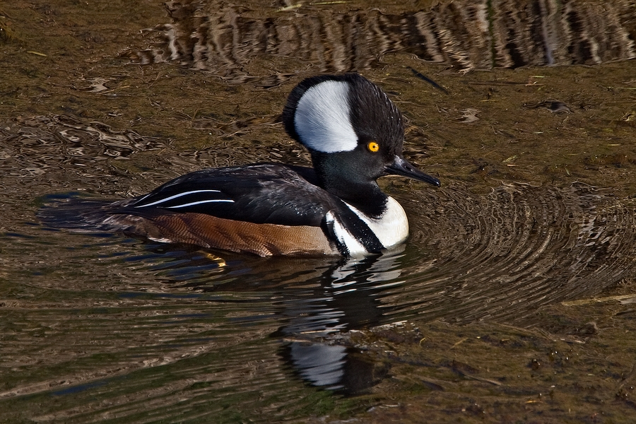 Hooded Merganser (Male), Colony Farm Regional Park, Port Coquitlam, British Columbia